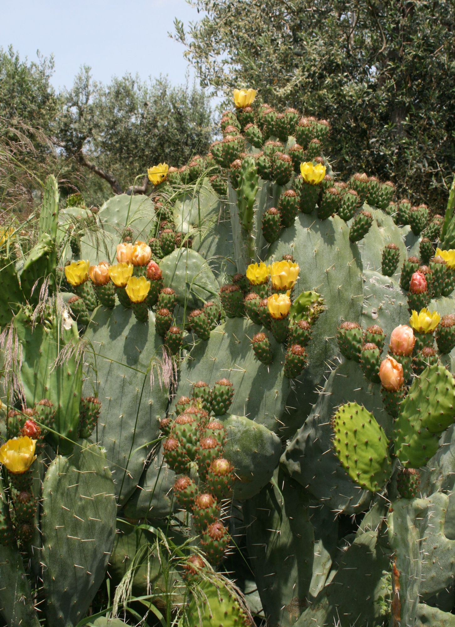 Opuntia ficus-indica, Kaktusgewächse (Cactaceae) - Italien/Italia/Italy: Apulien/Puglia, Prov. Foggia, südöstlich unter Rignano Garganico